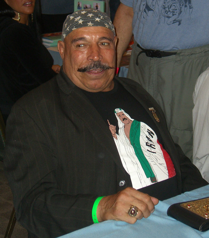 Professional wrestler Iron Sheik at the Big Apple Summer Sizzler in Manhattan, June 13, 2009.